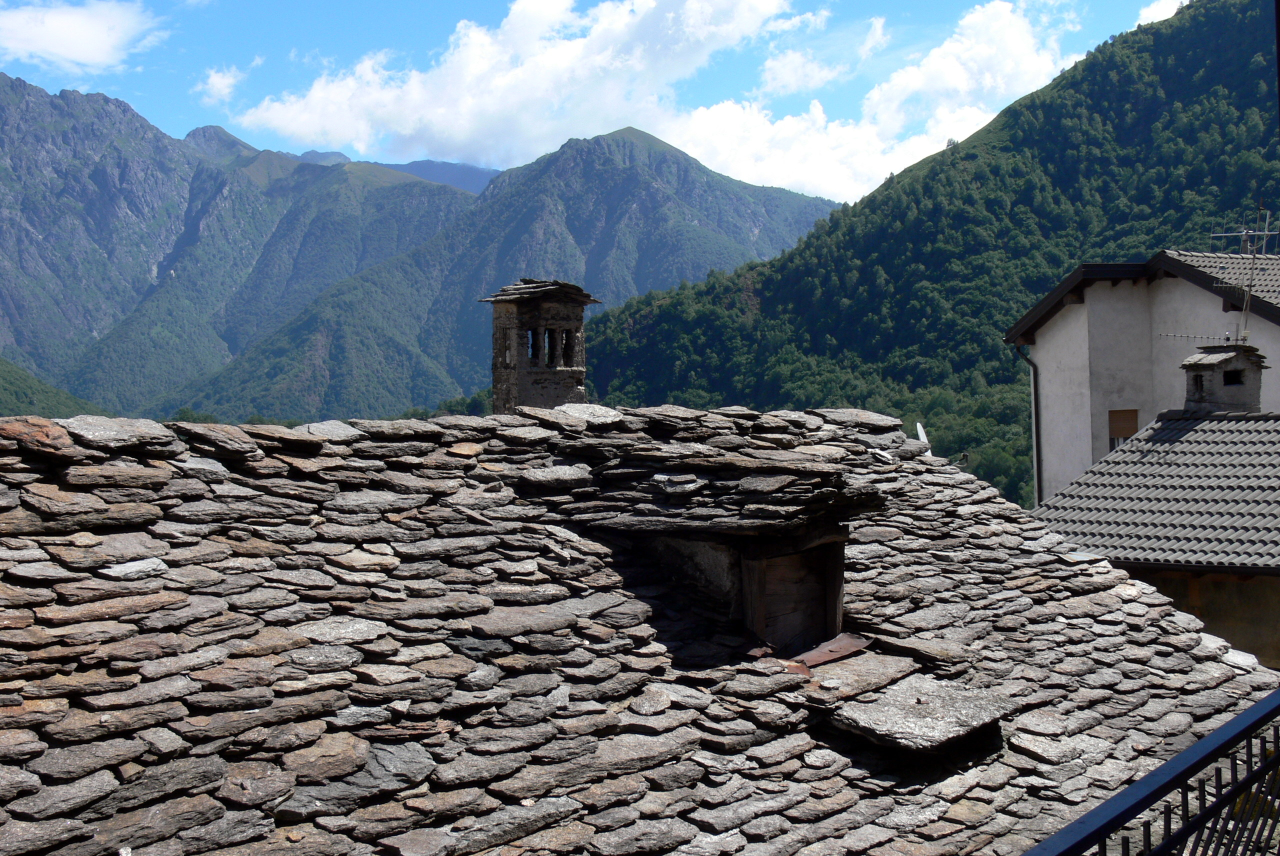 Gurro ( Valle Cannobina ). View from Circulo bar over stone roofs.